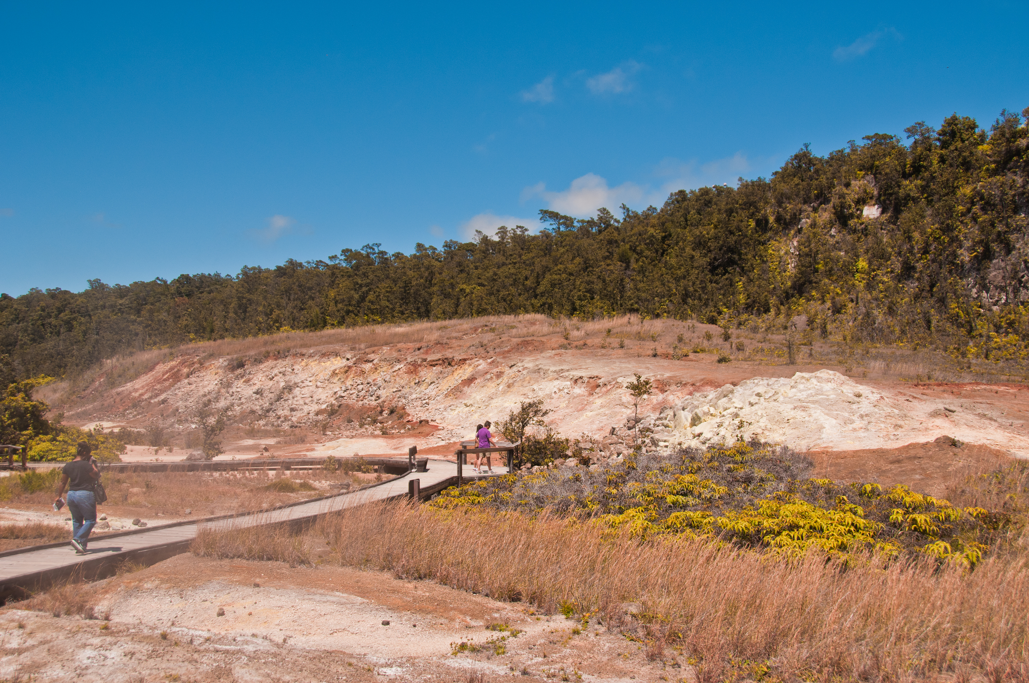 Sulfur Banks, Kilauea, Hawaii, Unites States